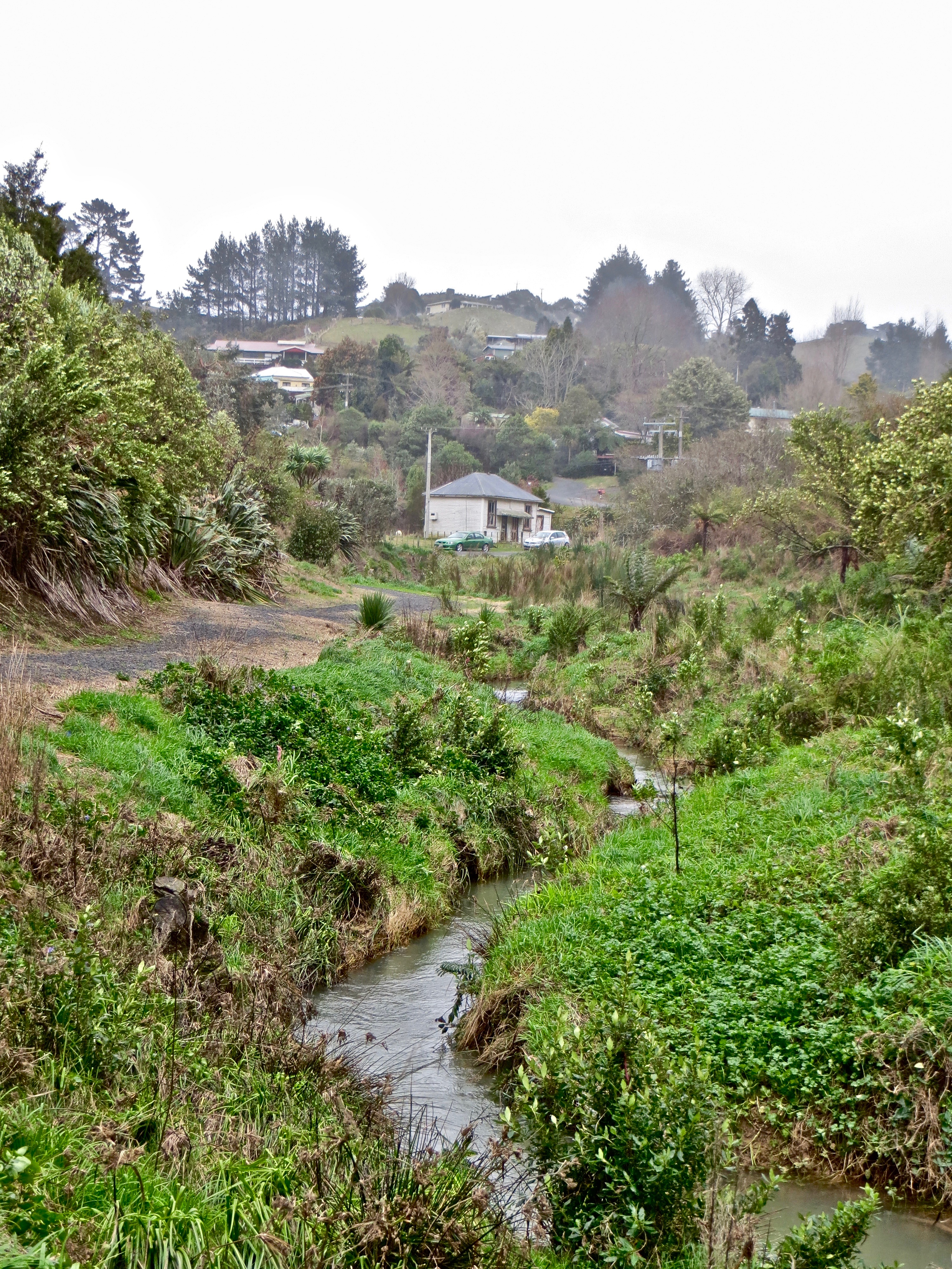 Stream, former rail track and former doctor's surgery